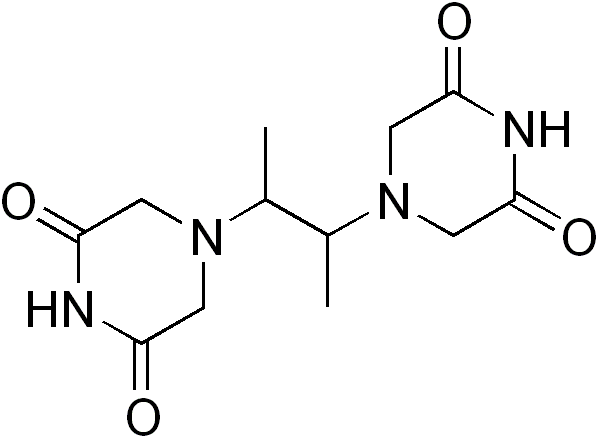 chemical structure of ICRF 193